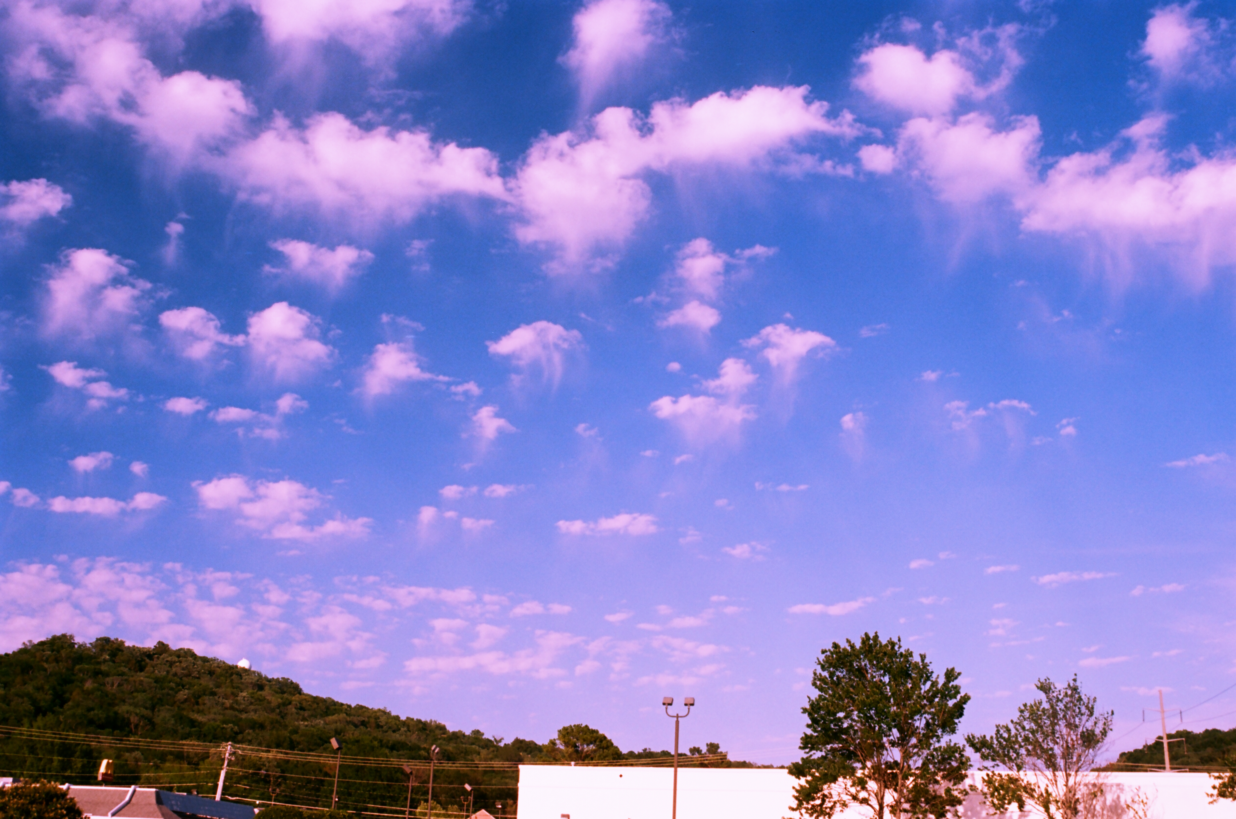 Altocumulus floccus with Virga